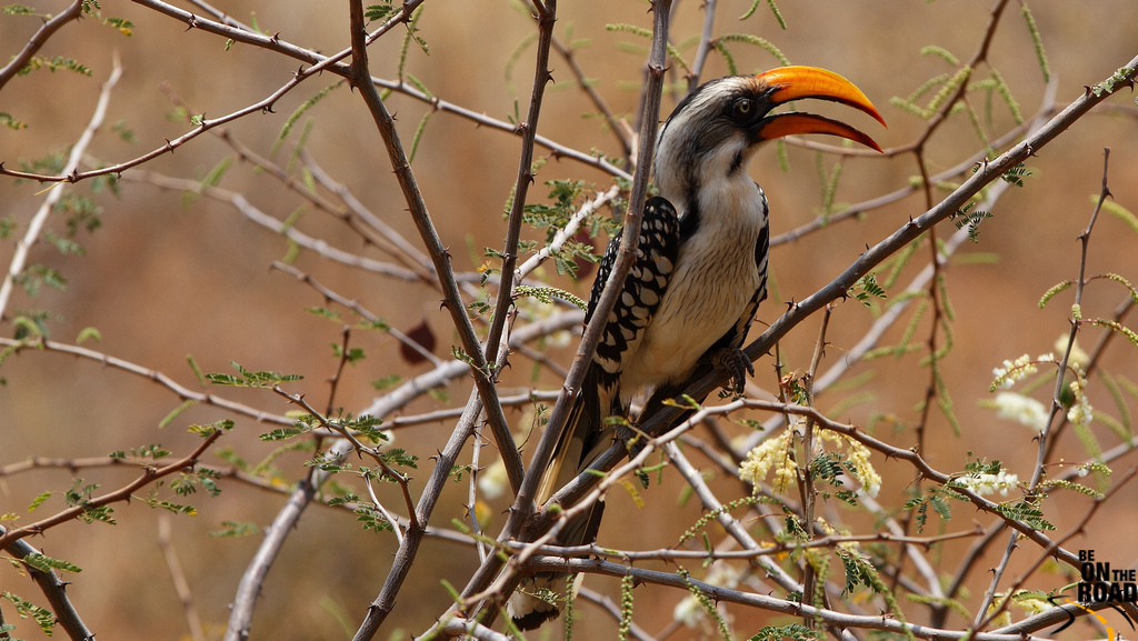 Eastern Yellow-billed Hornbill at Samburu National Reserve, North Kenya.